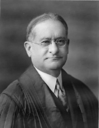 Scott Wilson (1870–1942) was a judge on United States Court of Appeals for the First Circuit from 1929 to 1942.